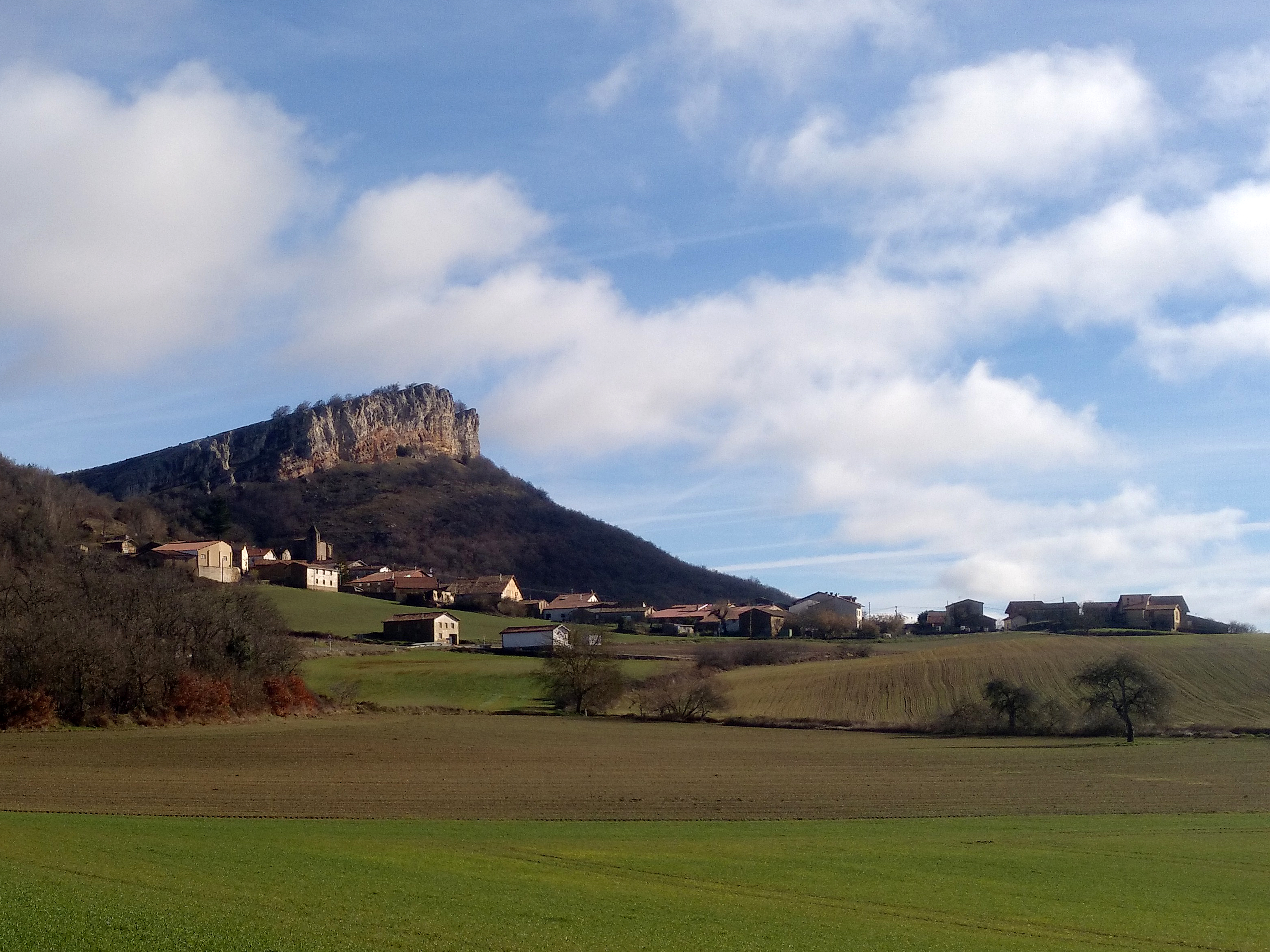 Durruma Kanpezu town in Bernedo municipality